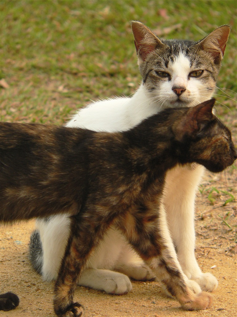 Domestic cats in Singapore. One tortoiseshell. One gray patched tabby.